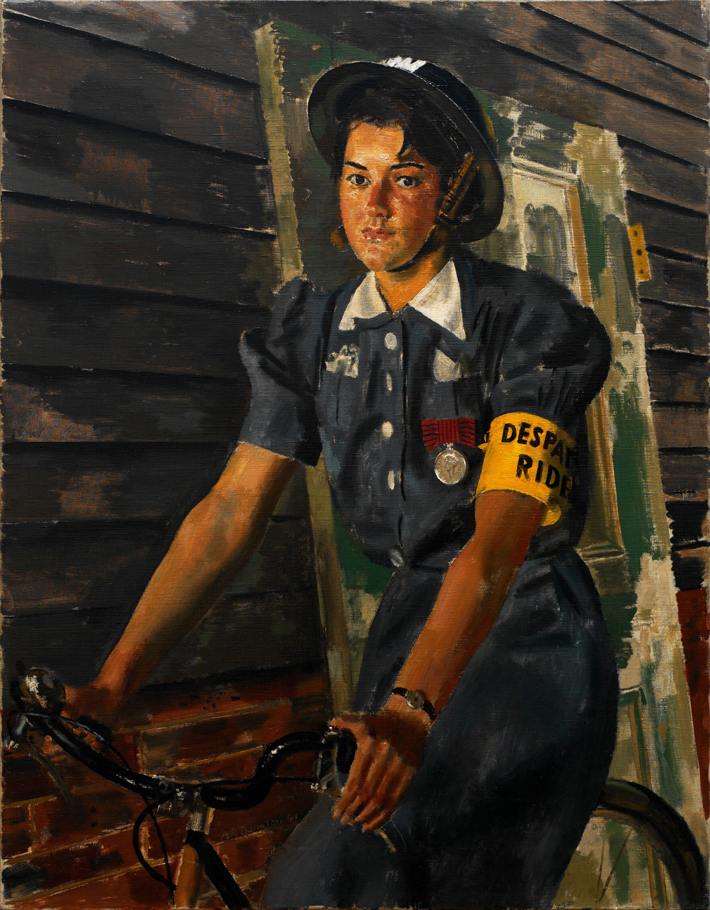 A three-quarter length portrait of Charity Bick in ARP uniform, wearing a helmet, yellow 'dispatch rider' arm band and her George Medal